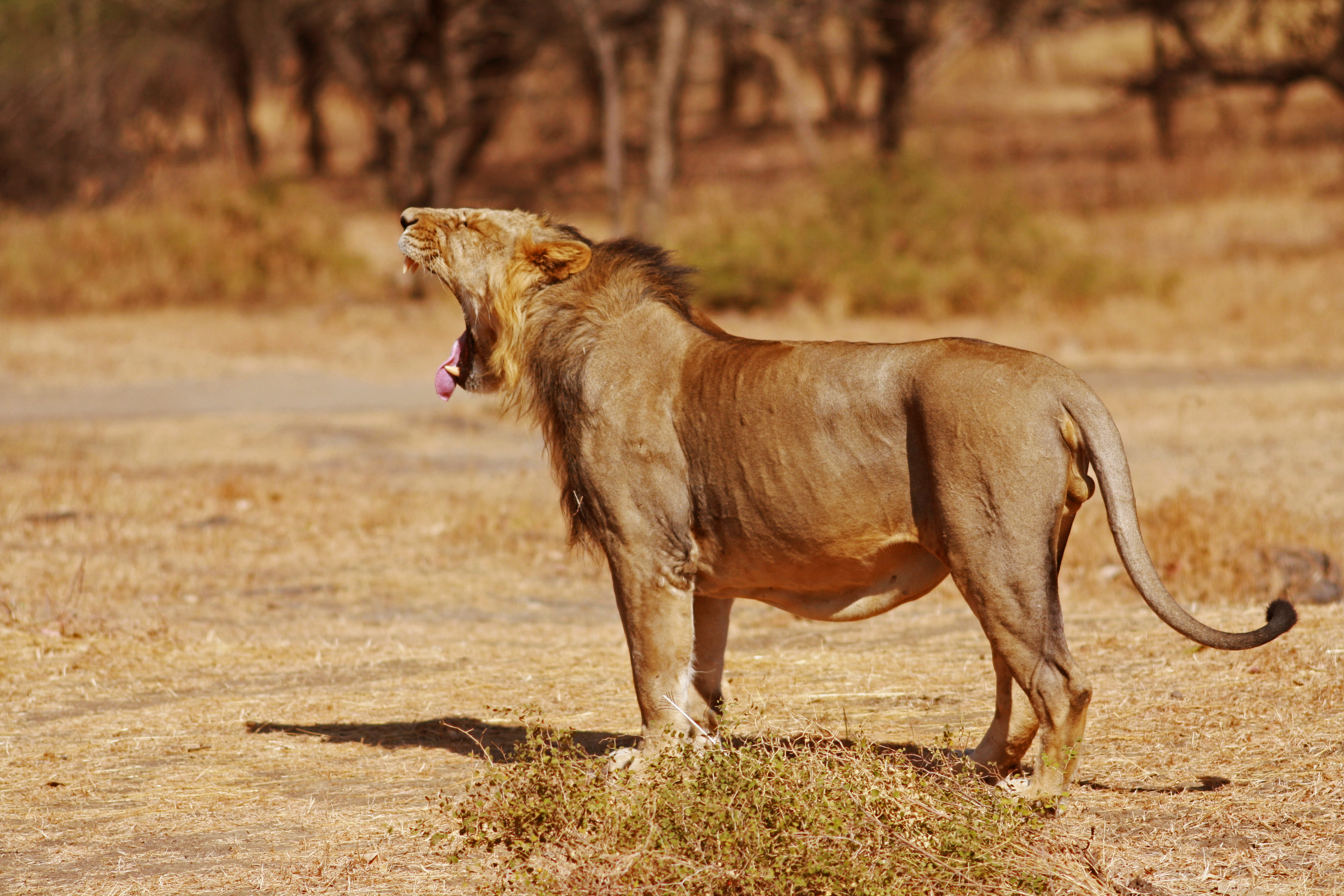 A sub-adult male Panthera_leo_persica(Asiatic Lion) , at the Gir National park Yawns as he stands in an open area of the forest